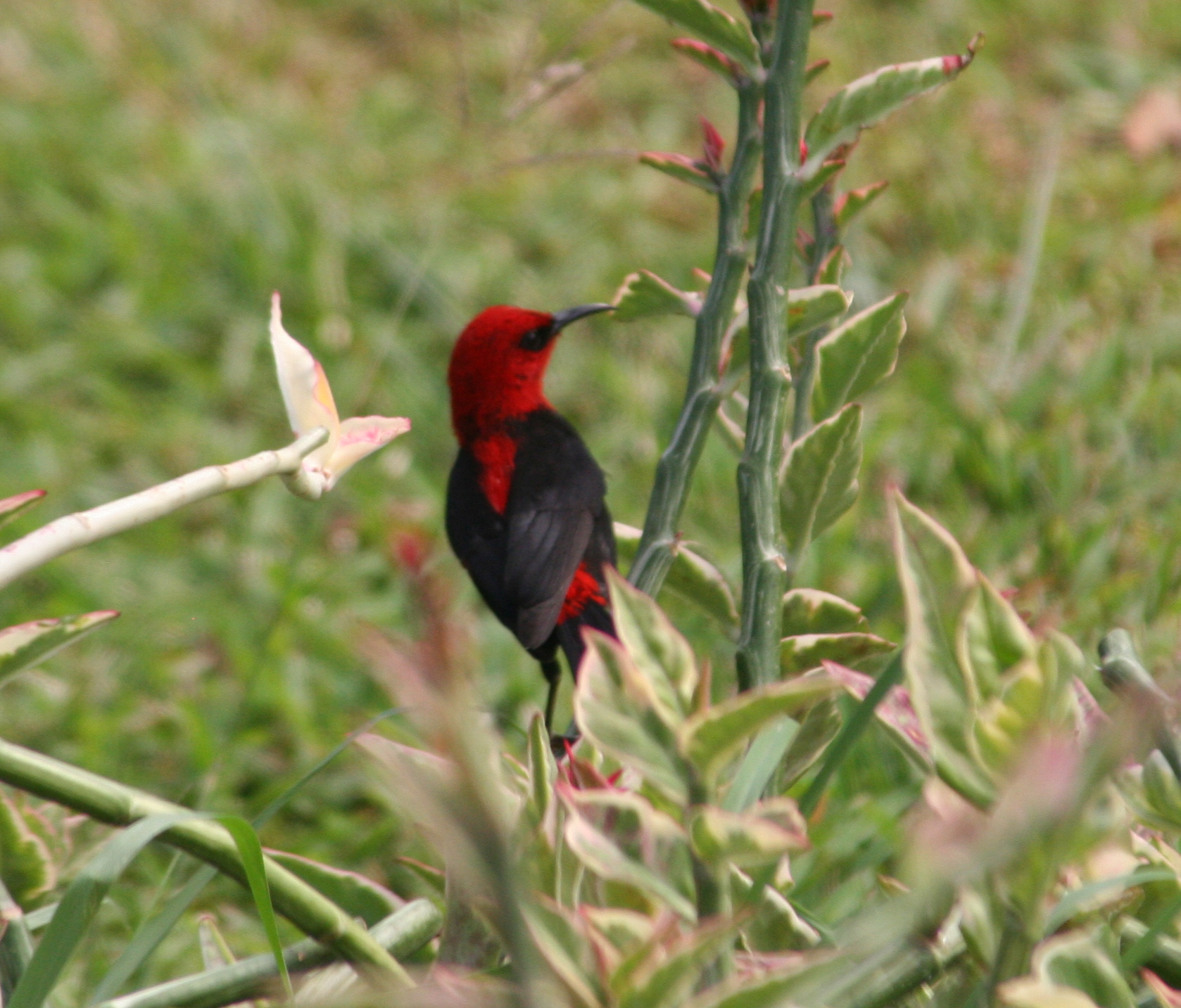 Cardinal Myzomela (Myzomela cardinalis tenuis), Espiritu Santo, Vanuatu